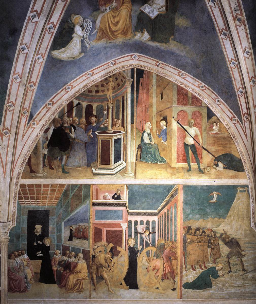 Scenes from the Catherine Legend (left wall)